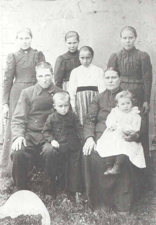 Family Skogslund from Karijoki, Finland, the summer 1901.